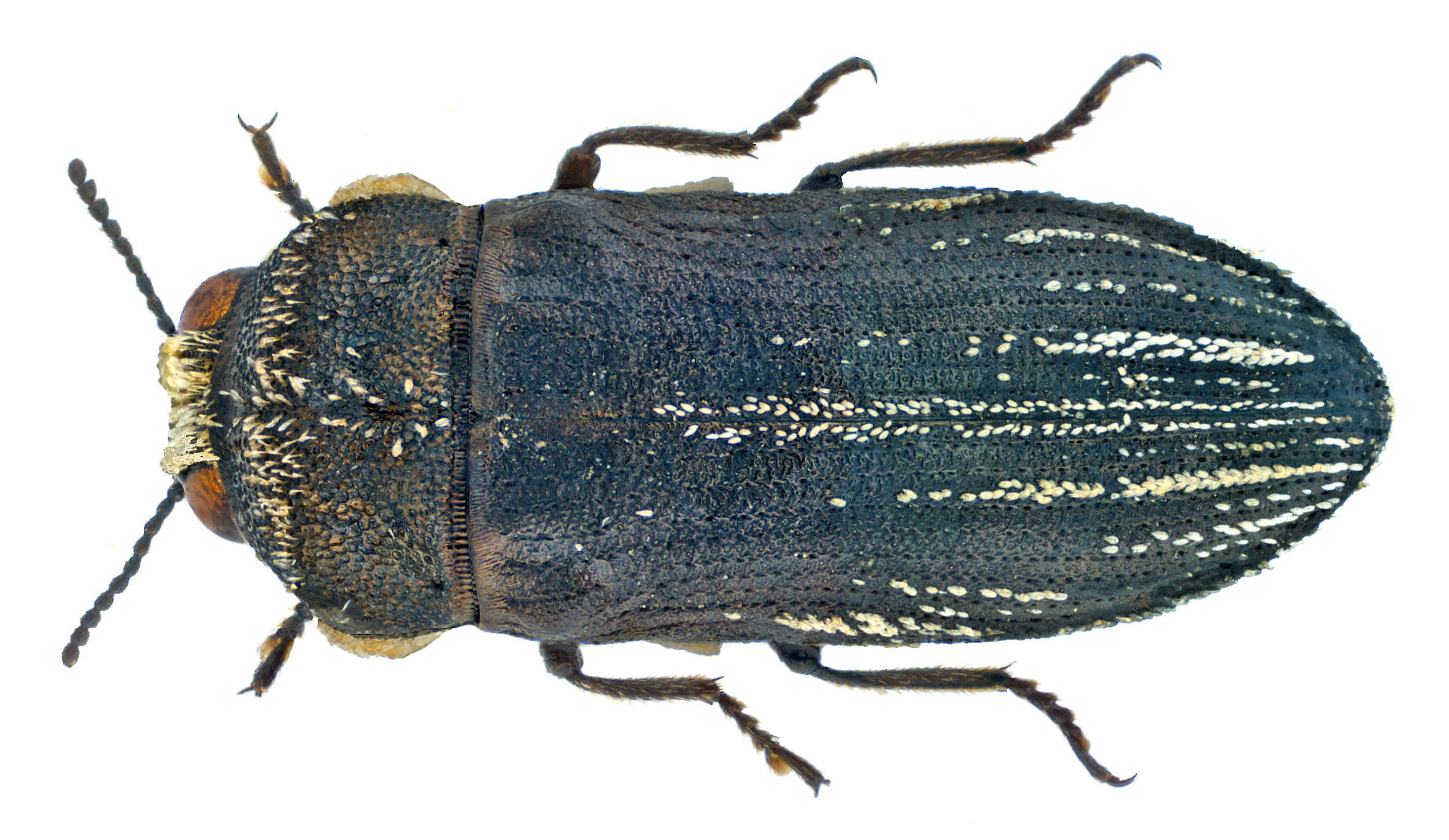 Family: Buprestidae Size: 8,7 mm Location: Cyprus, Larnaca Distr., Alaminos, environment Club Aldiana leg. U.Schmidt, 4.-14.V.2014; det. M.Niehuis, 2014 Photo: U.Schmidt, 2014